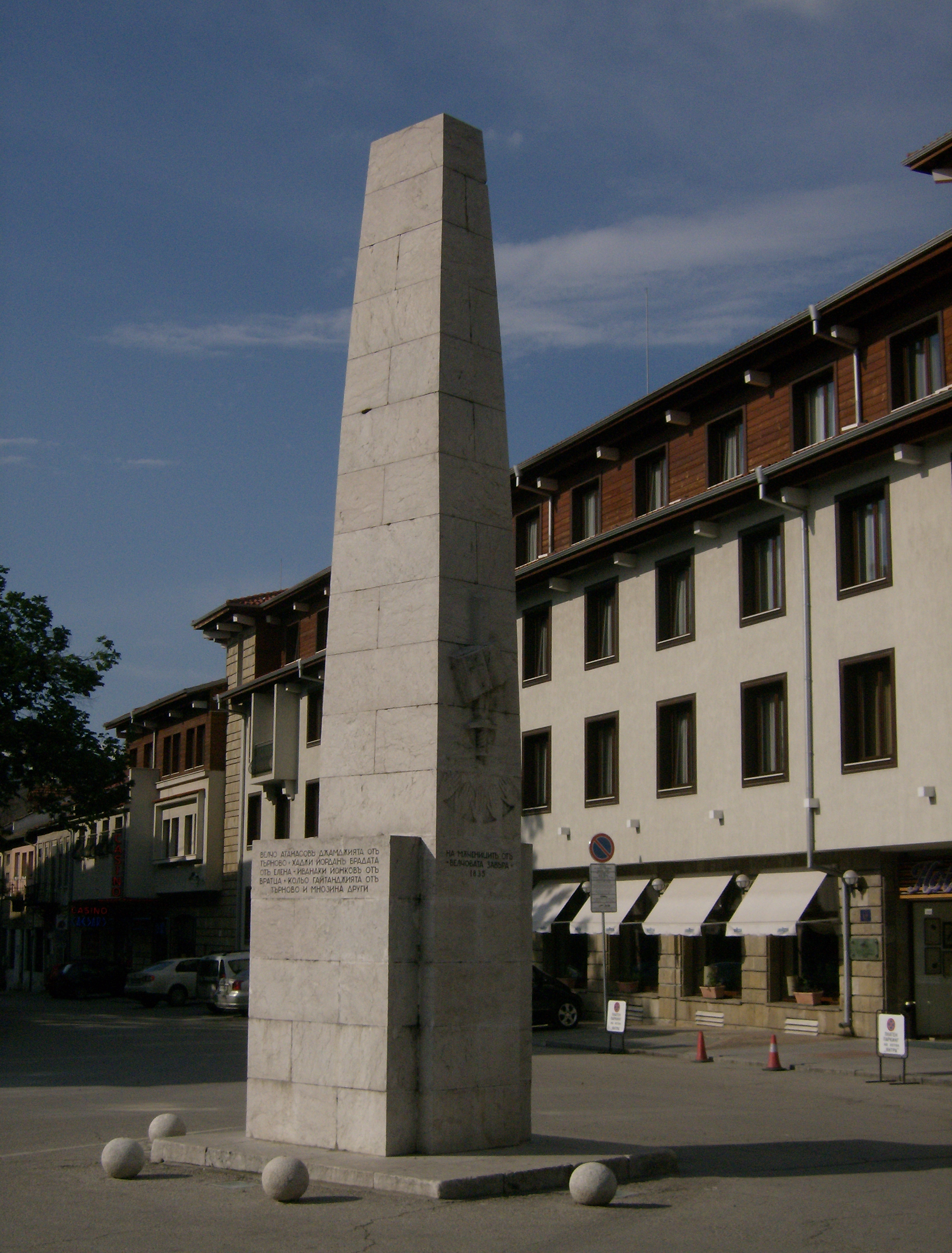 Velchova Conspiracy Monument Turnovo